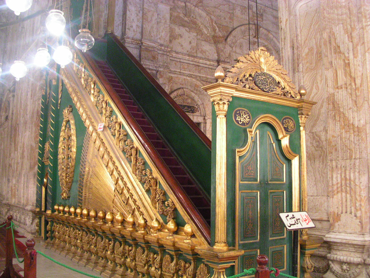 Cairo citadel February 2007. The largest and most ornate minbar of the Muhammad Ali mosque.